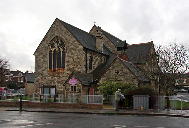 St Paul's parish church, Long Lane, Finchley, London N3, seen from the northeast at the junction with Dukes Avenue. Built in 1885 but never completed. A spire was planned but not built.